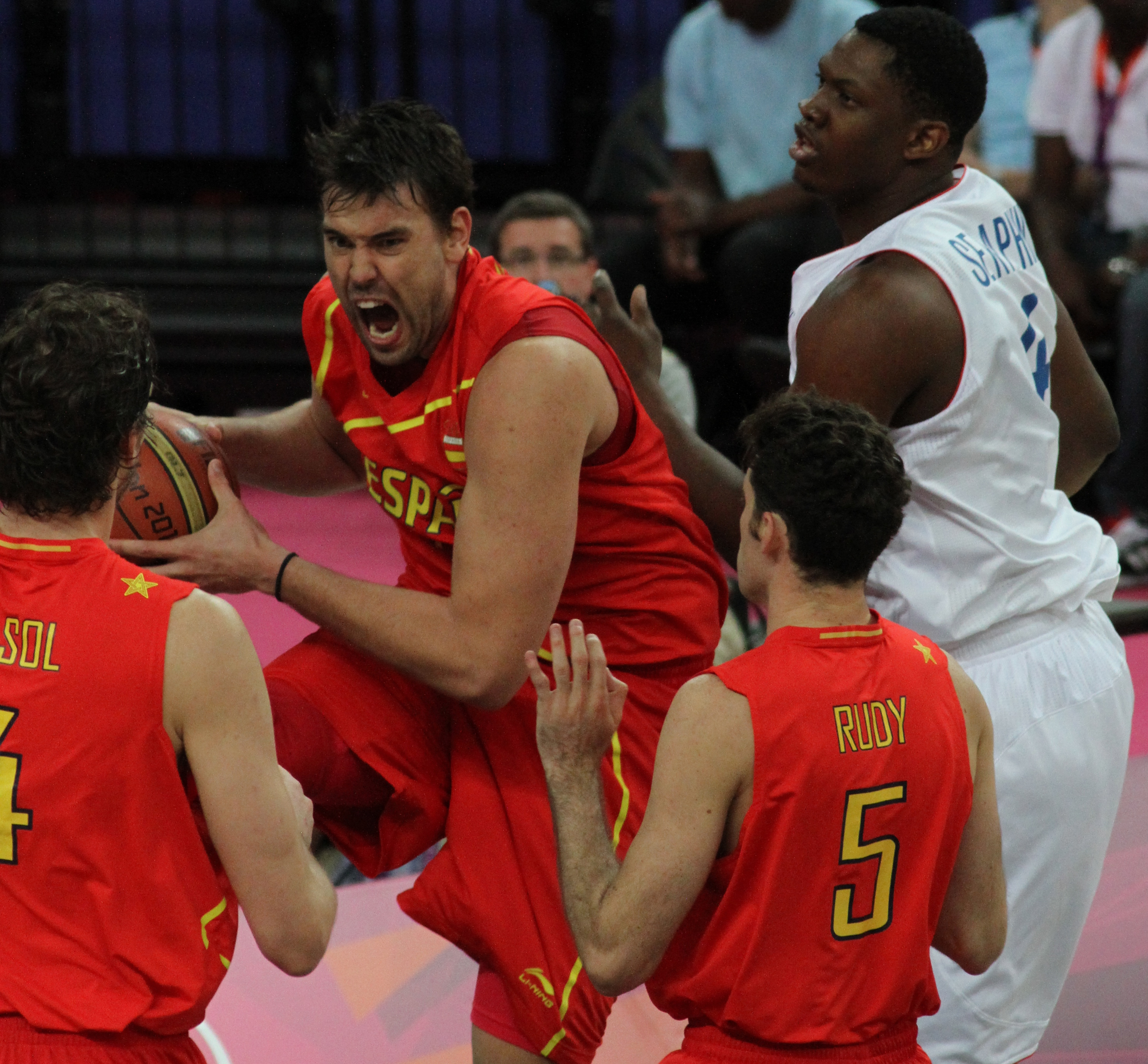 Spain vs France, 2012 Olympic basketball